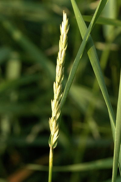 Picture taken in Commanster, Belgian High Ardennes . Species: Danthonia decumbens